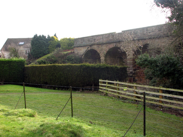 Short viaduct near Spofforth Castle. On the abandoned North Eastern Railway Wetherby-Harrogate line (1848-1964), on which Spofforth was the only intermediate station.